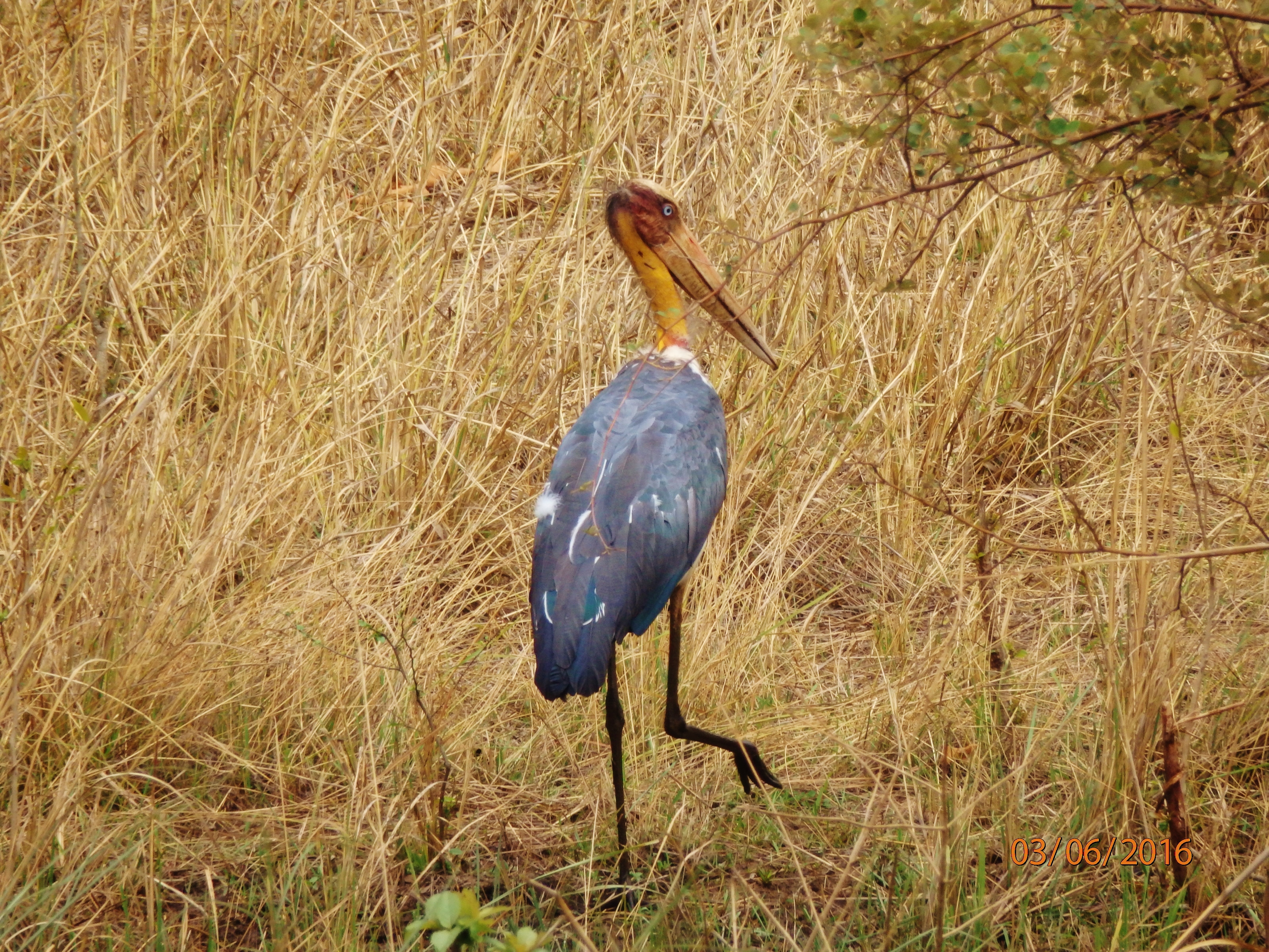 Lesser Adjutant at Bandhavgarh National Park